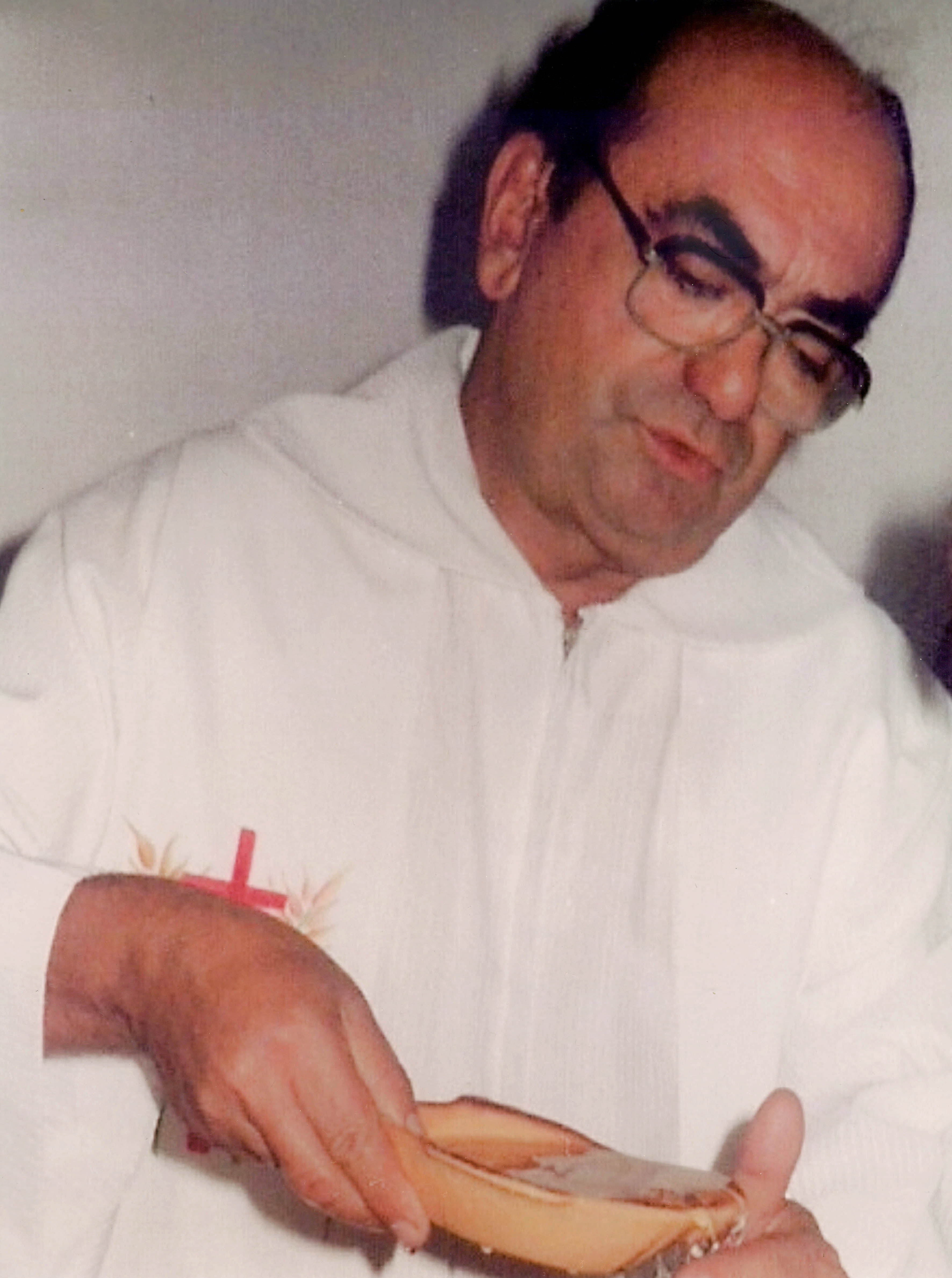 Igreja Nossa senhora de Lourdes